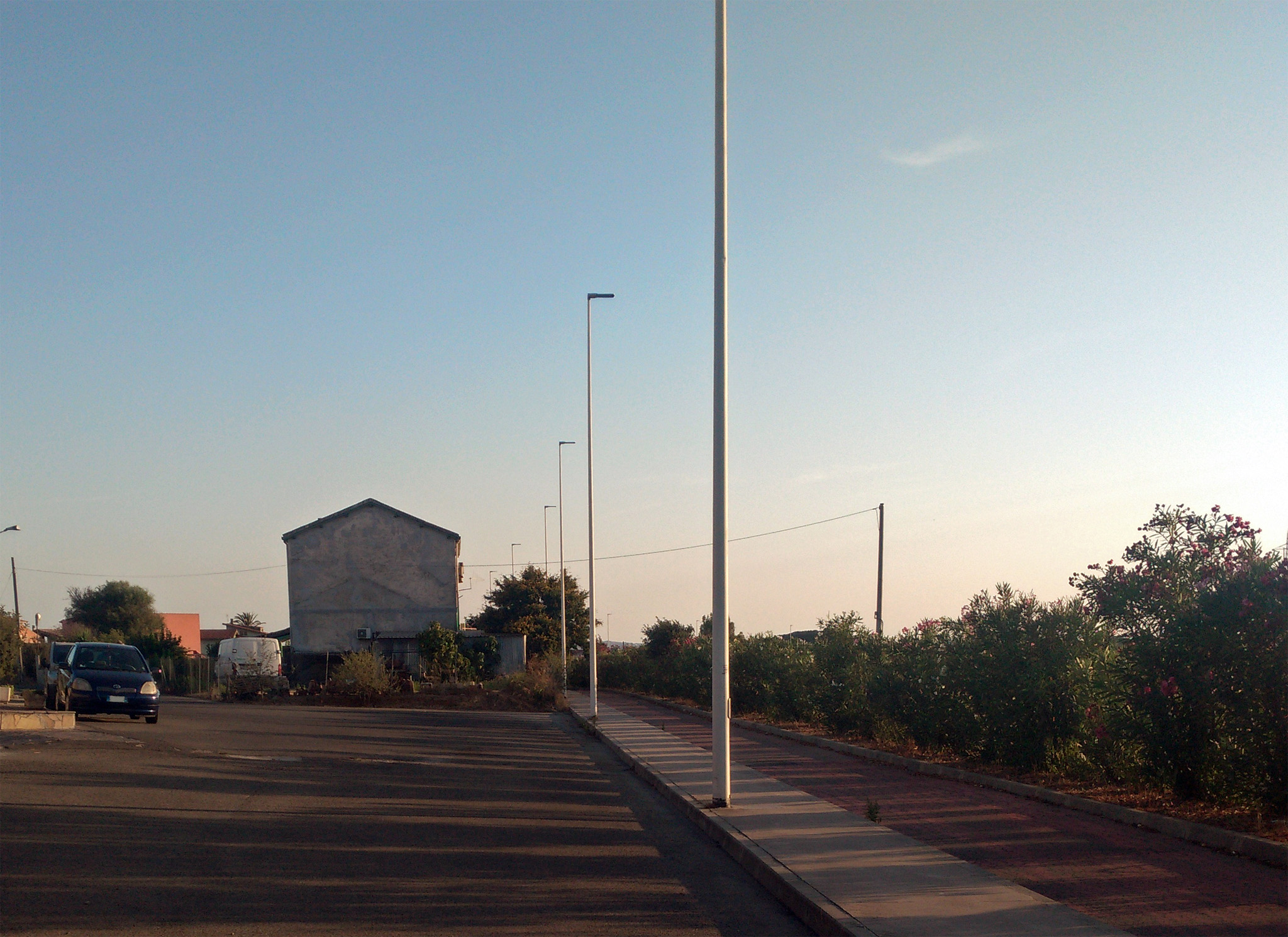 The former railway station of Serbariu in Carbonia, Sardinia, Italy, along the San Giovanni Suergiu-Iglesias railway, this one closed in 1974